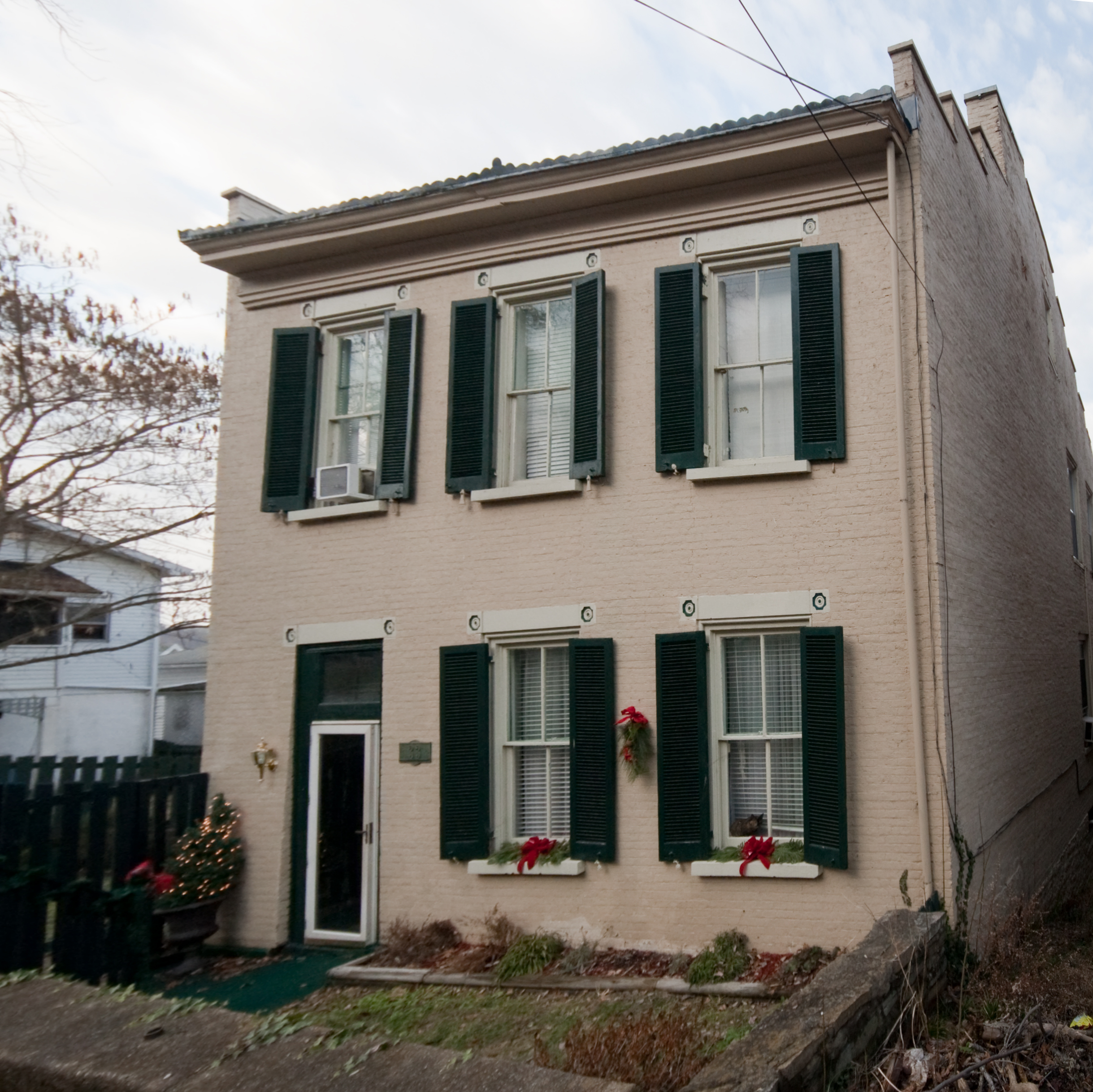 House in Fourth Street Historic District in Maysville, Ky. Photo by Greg Hume